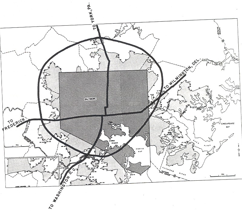 Interstates in today's terms I-70 I-83 I-95 I-695